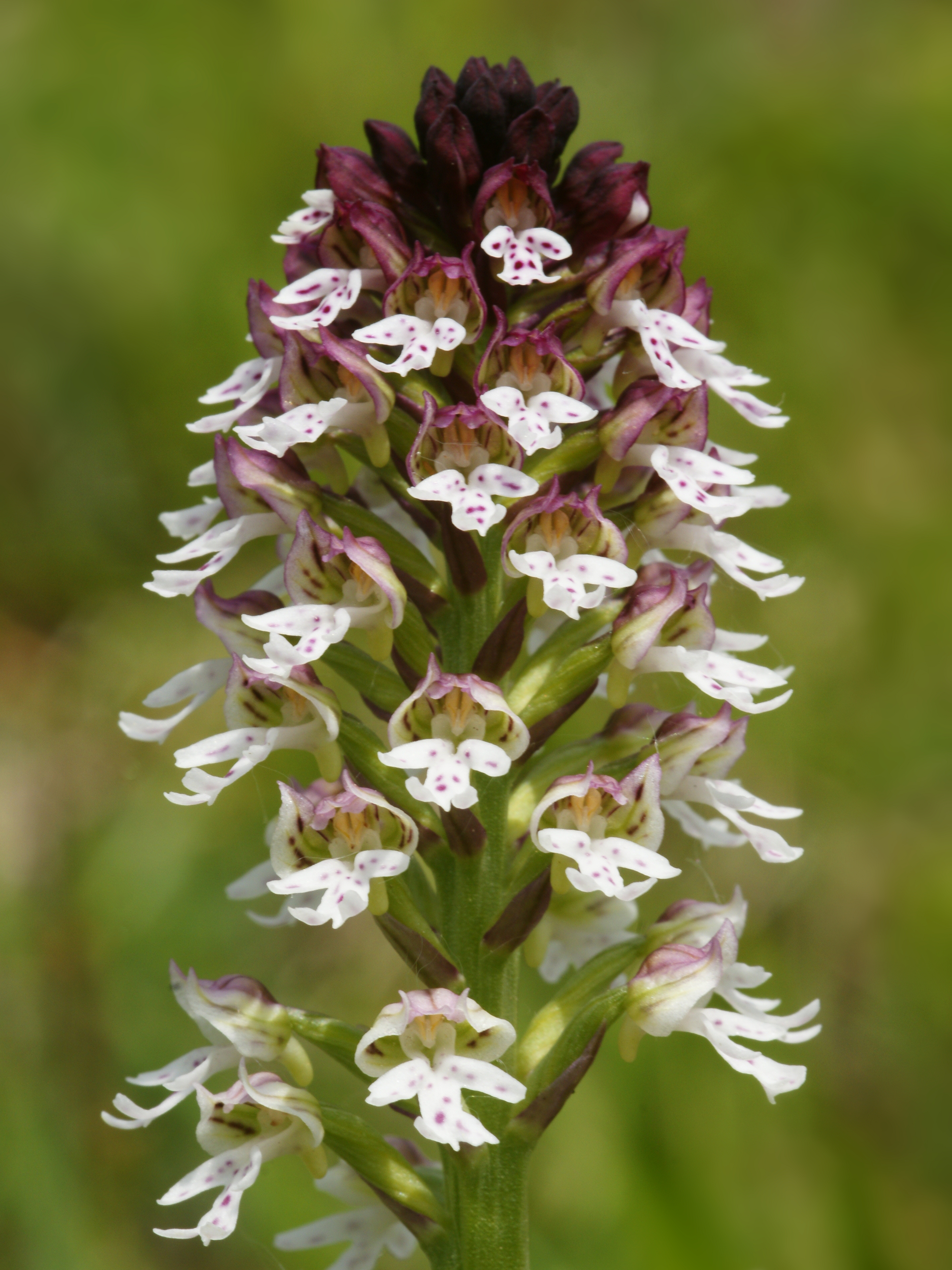 Burnt orchid. Approximate co-ordinates: plant located within 3 km from Nismes, Belgium